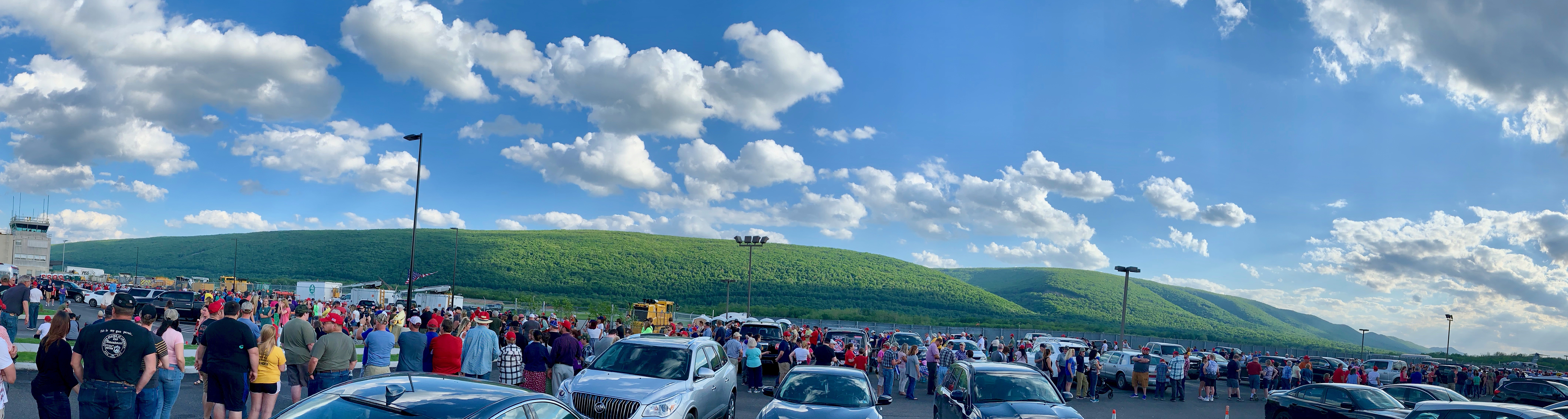 Bald Eagle Mountain provided the backdrop during the POTUS Rally held at Williamsport Regional Airport on May 20 2019 by President Trump. After months of endless rain, the skies finally cleared up and showcased a lush Susquehanna Valley appearing almost emerald green, as the spring season turned into summer.